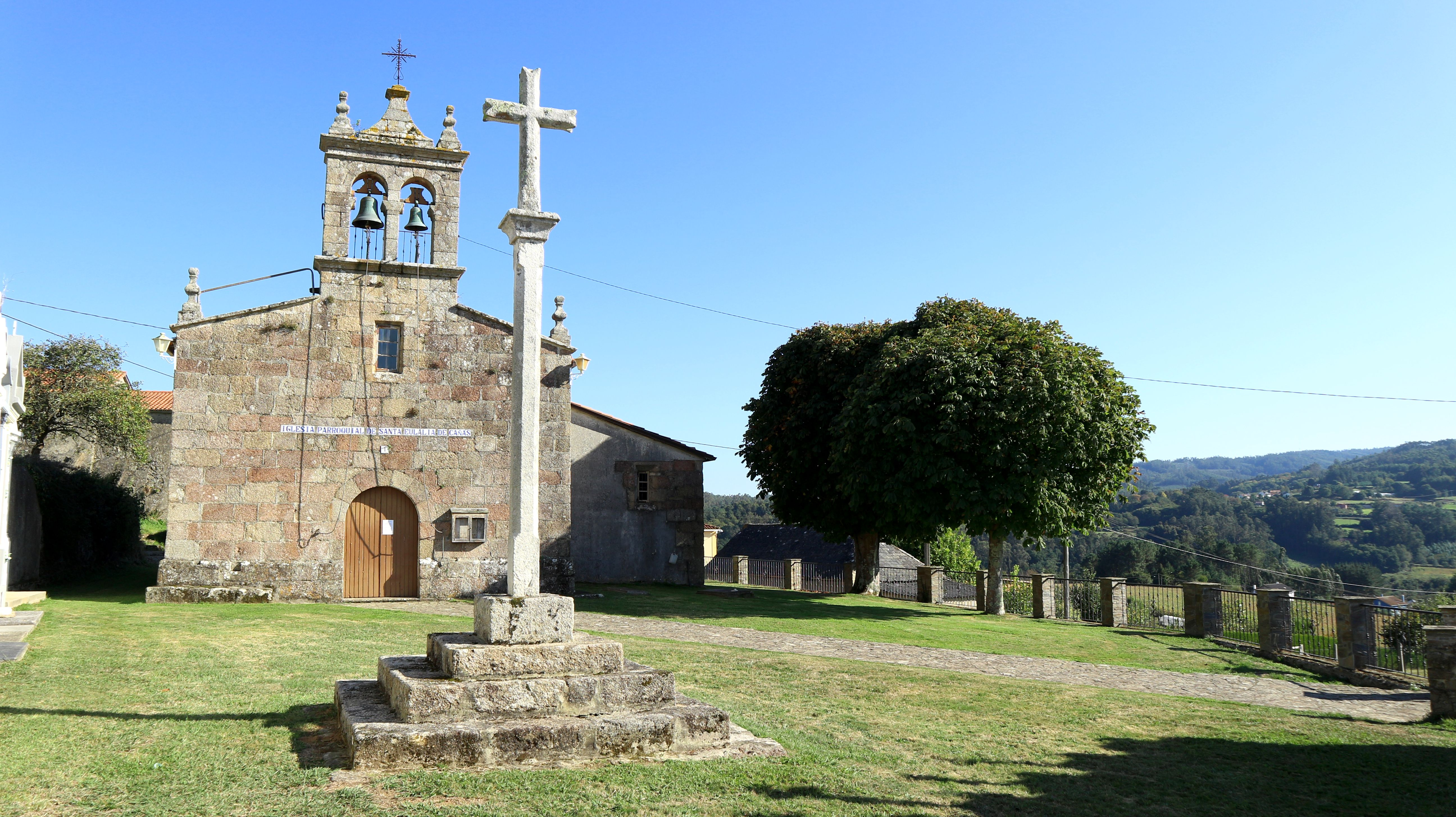 Igrexa de Santaia de Cañás, no Bacelo, Cañás (Carral, A Coruña).